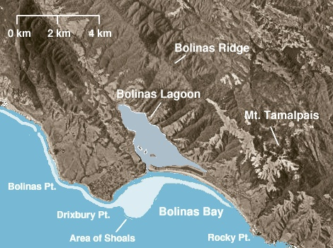 Bolinas Bay and Bolinas Lagoon © 2004 Matthew Trump. Text on image reads "Drixbury Pt.", and should read "Duxbury Point"